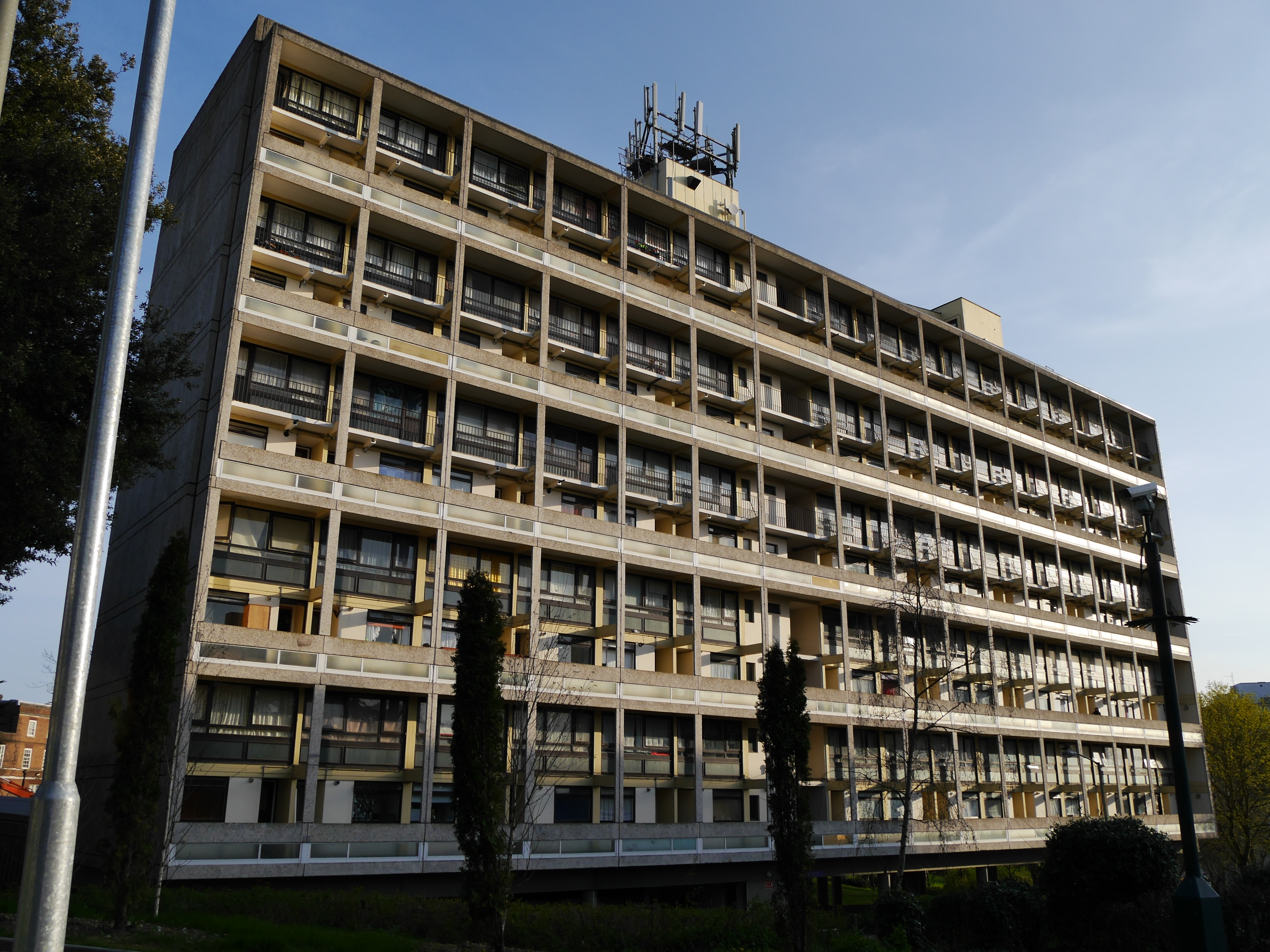 Alton Estate, Roehampton (Highcliffe Drive tower blocks) March 2014